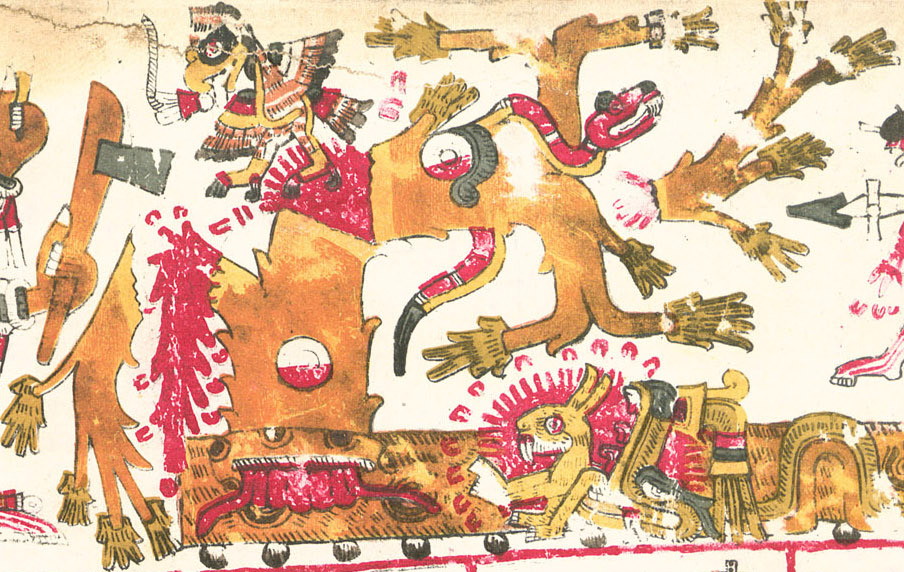 Tamoanchan described in the Codex Borgia.